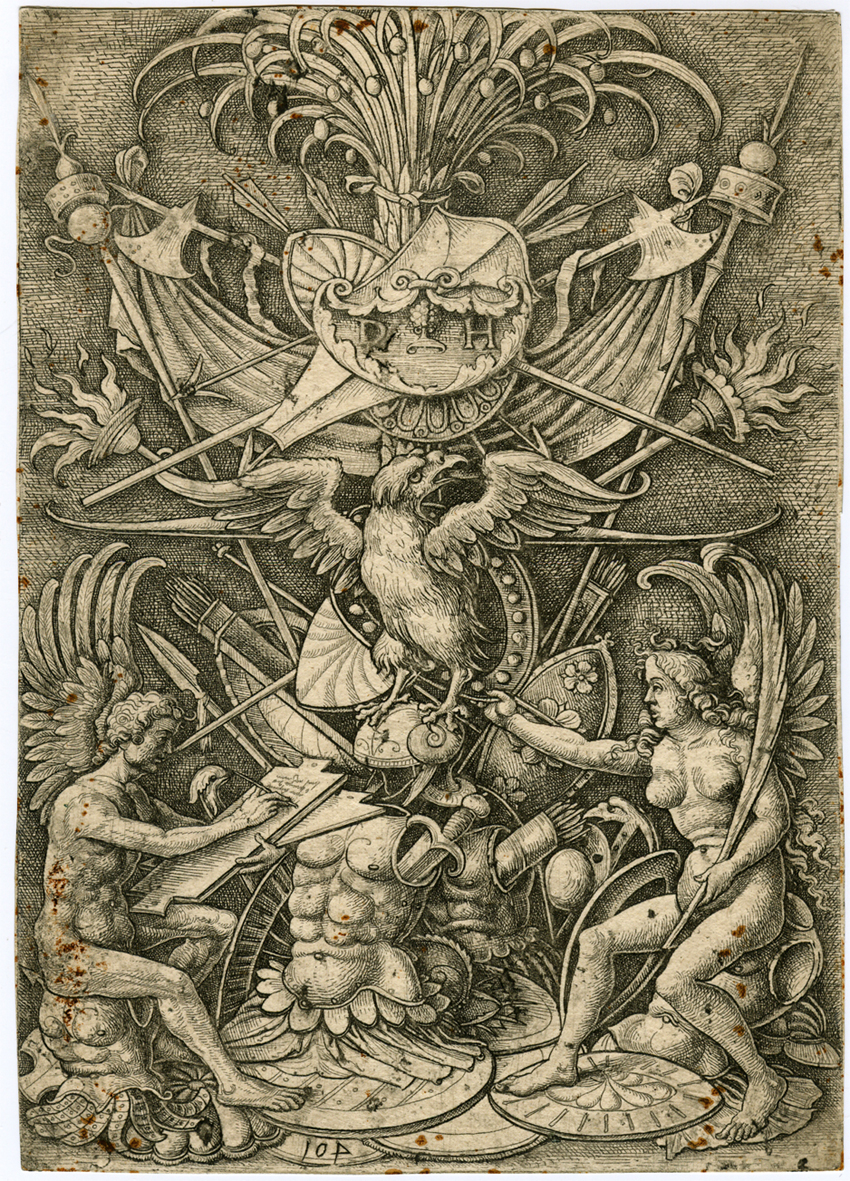 Hopfer, Daniel (ca 1470-1536): “A Trophy of Arms, History and Victory seated at lower left and right”. Victory stretches her right arm towards Jupiter, in form of an eagle. Etching. Bartsch VIII, 130, Holl.140 ii/ii, with Funck number 104. A late rather pale copy trimmed inside the platemarks, with several rust spots.